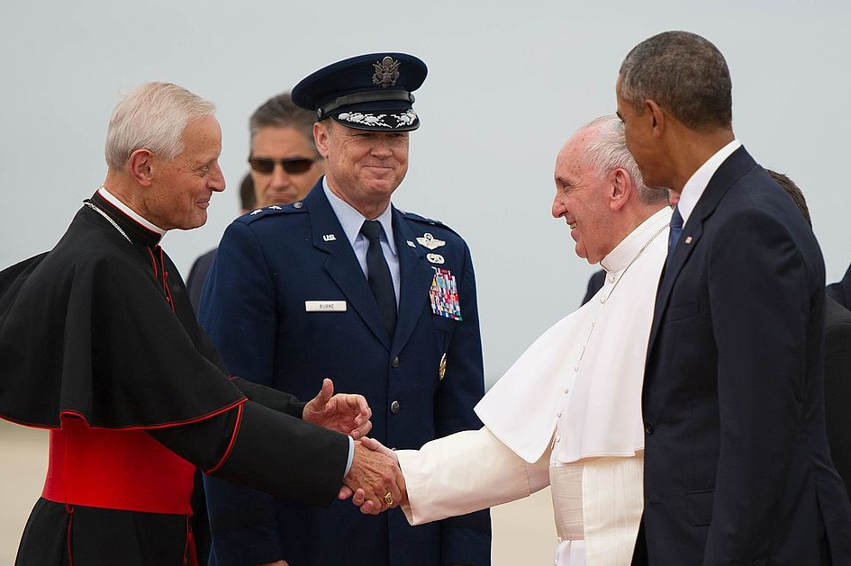 Archbishop Wuerl, with Barack Obama, welcomes Pope Francis to USA